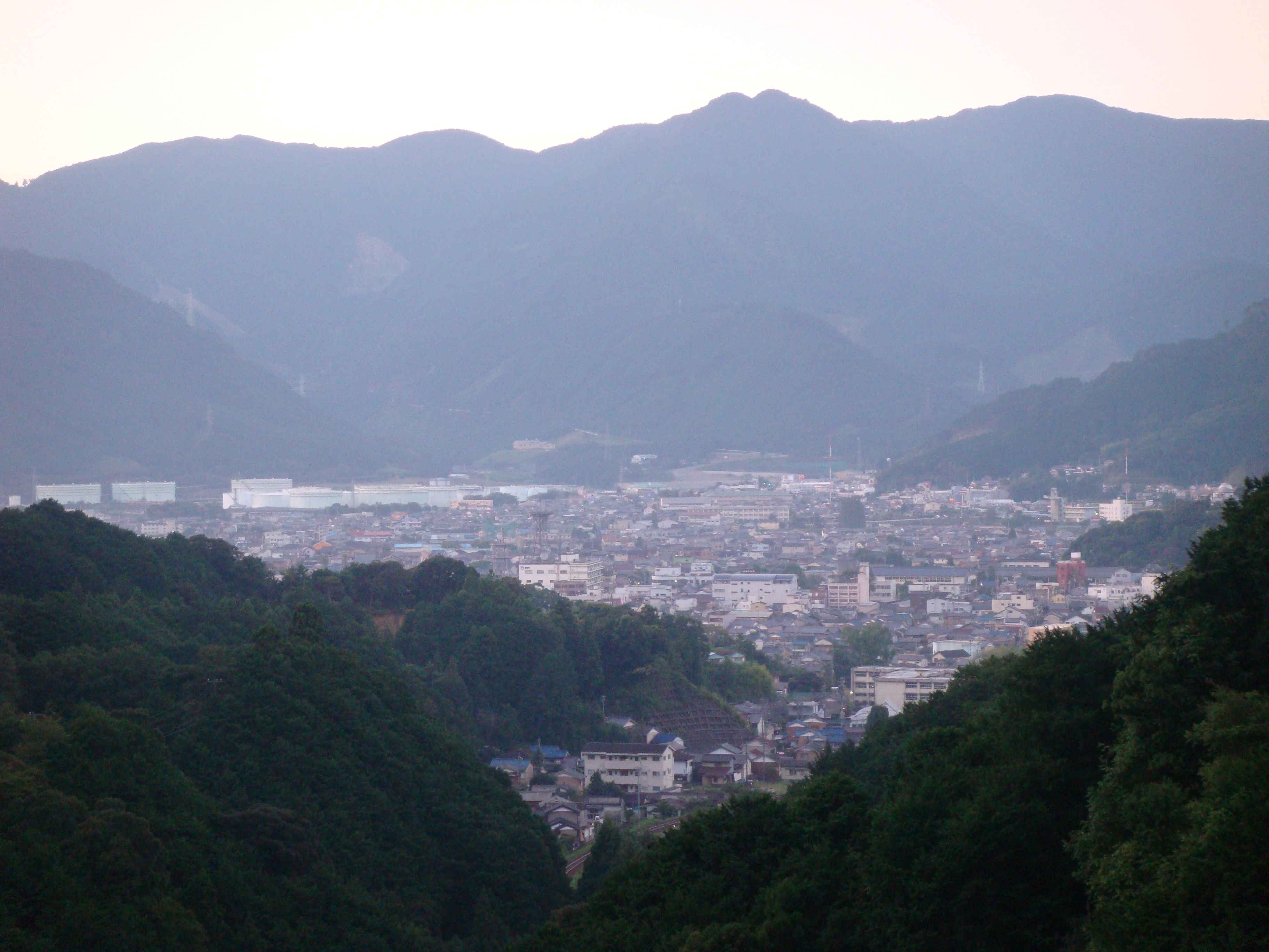 Central Owase City This image sees the central Owase City from the Owase side of Japan National Route 42, Owase Tunnel. Place - Minamiura,Owase City,Mie Prefecture,Japan Date - September 22, 2010 Format - JPEG, 3648x2736pixel, 24bit colors Photographer - NALA Wiki (talk)